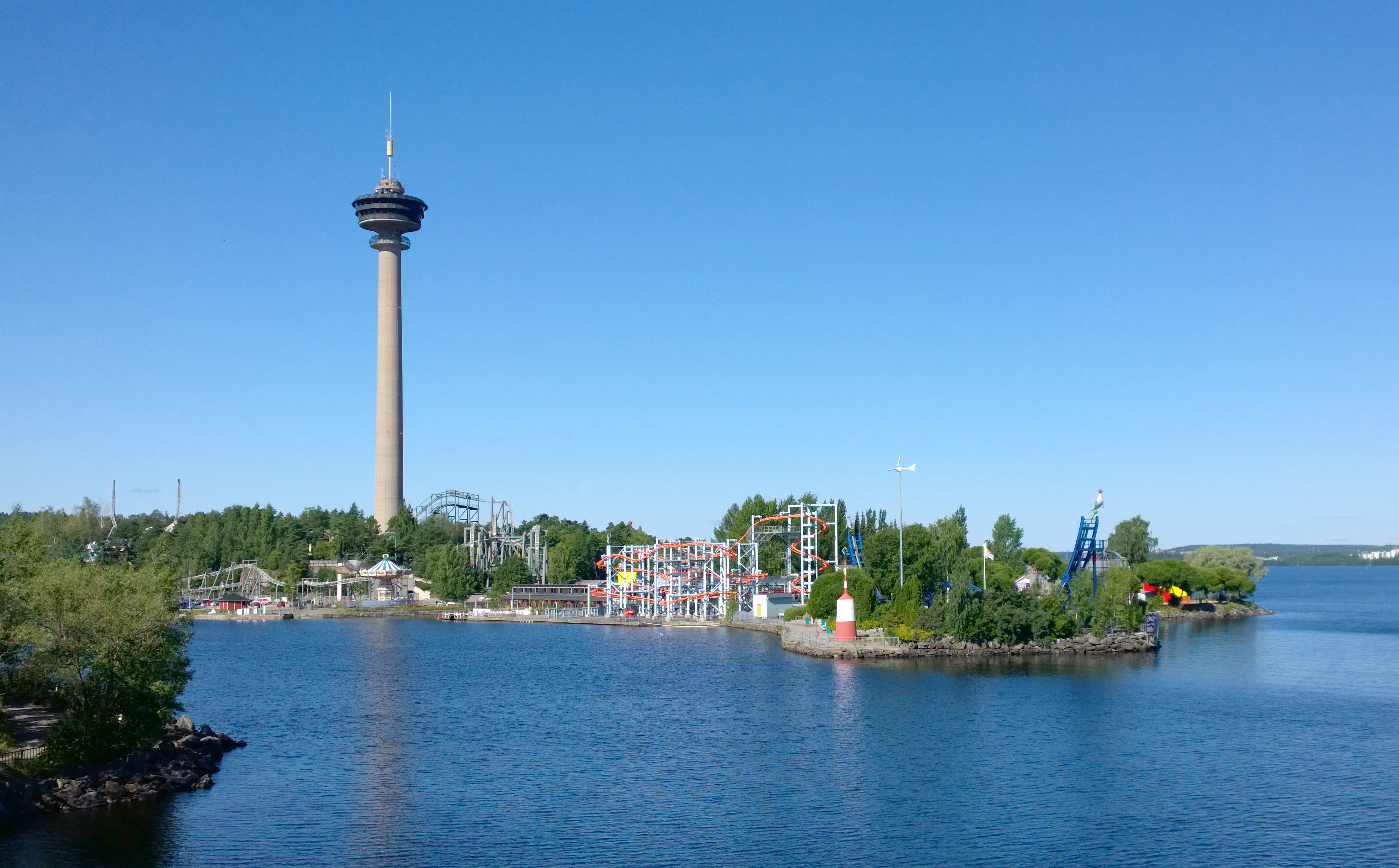 Särkänniemi. Photo taken from Näsinsilta